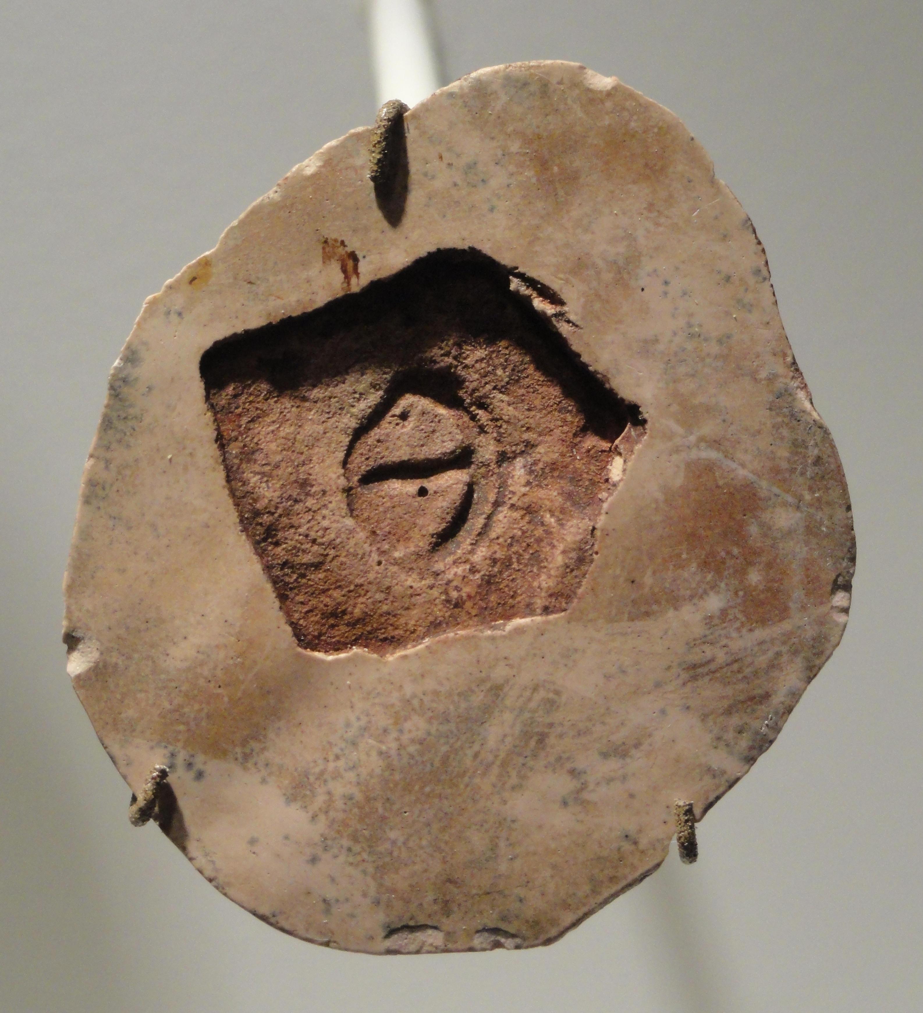 Exhibit in the Houston Museum of Natural Science, Houston, Texas, USA.